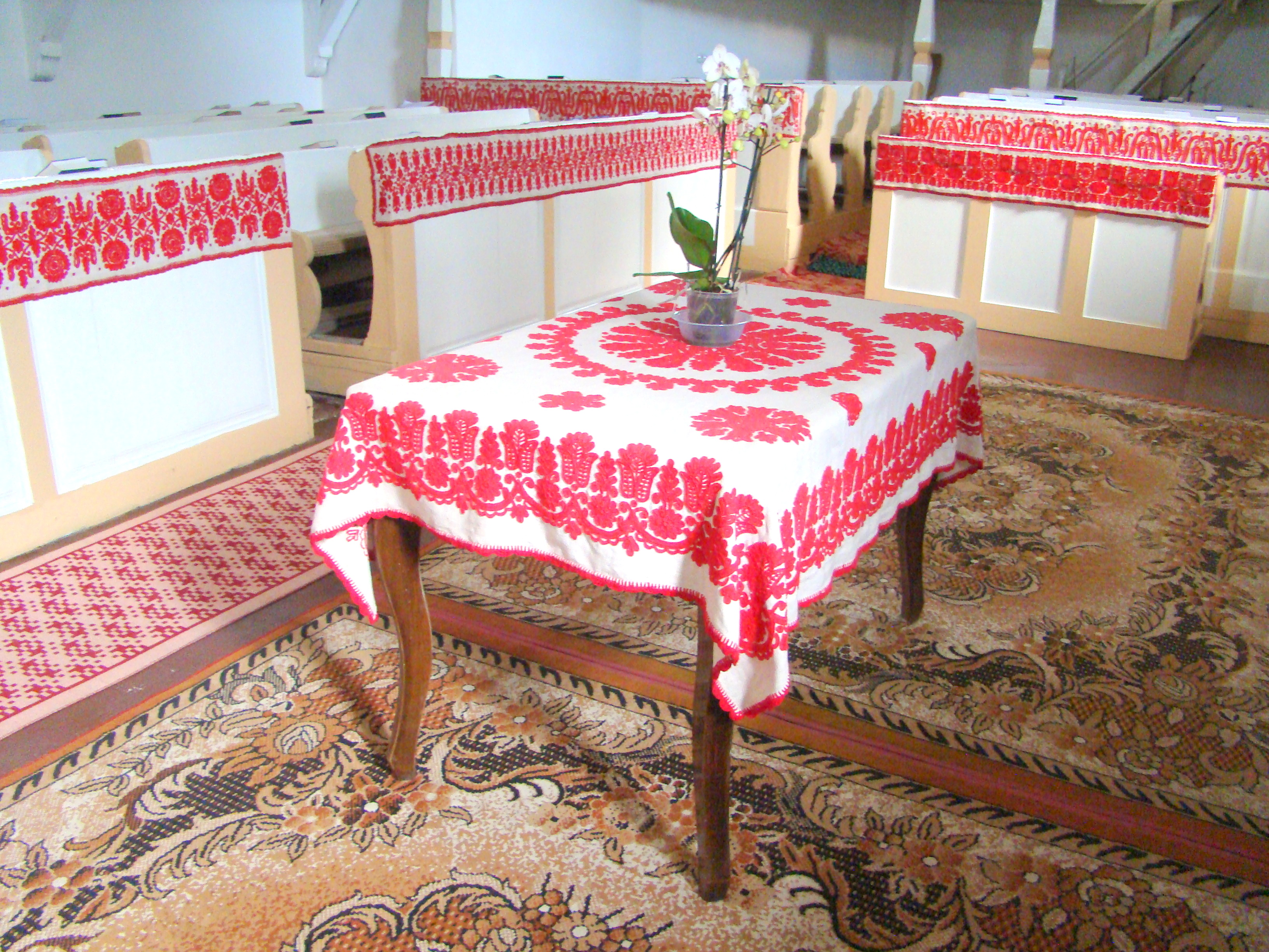 Reformed church in Vălenii de Mureș, Mureş county, Romania